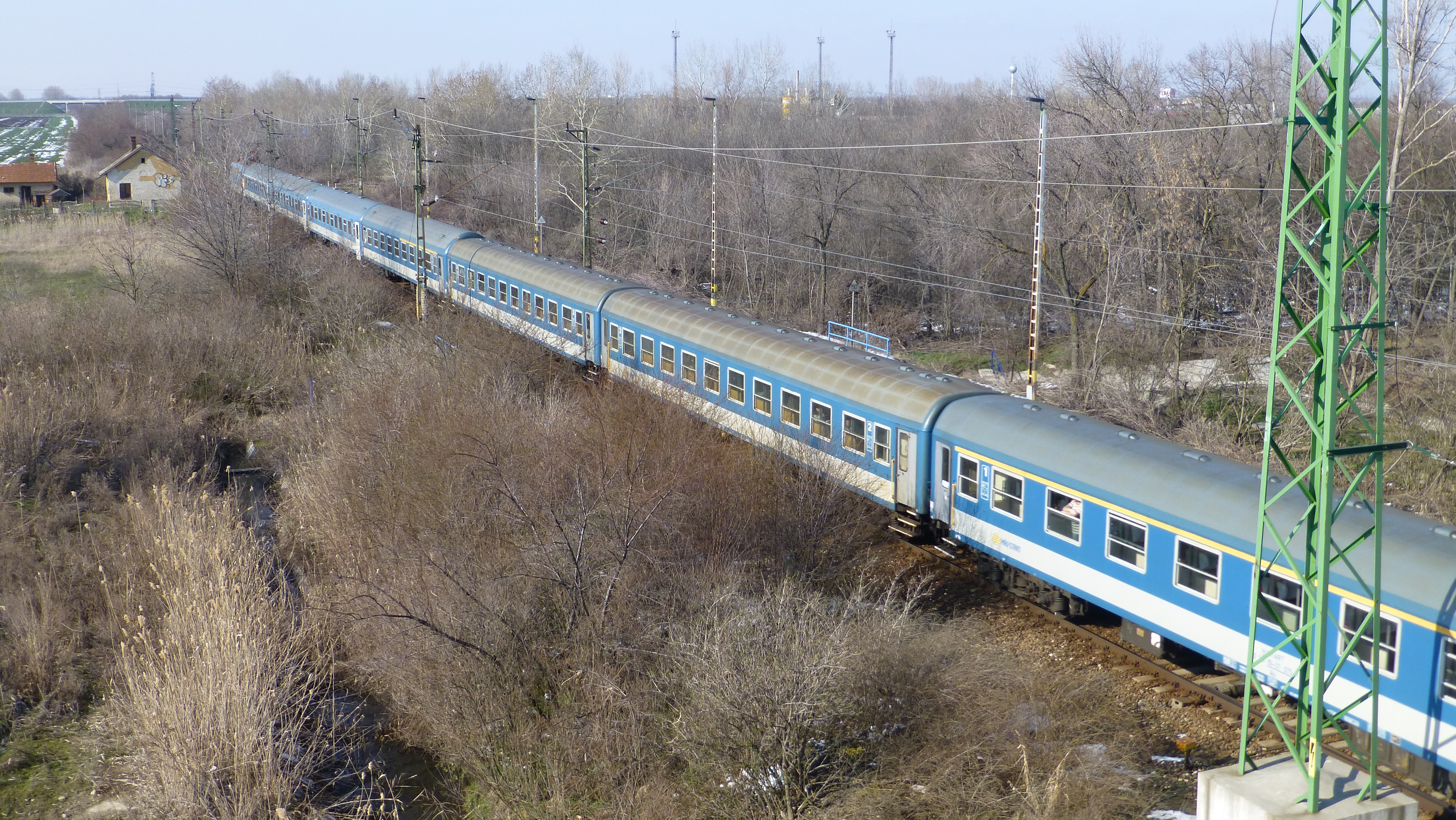 InterCity train nr 756.(Maros IC) of the MÁV-Start Co. leaving Szeged-Kiskundorozsma station direction Budapest.